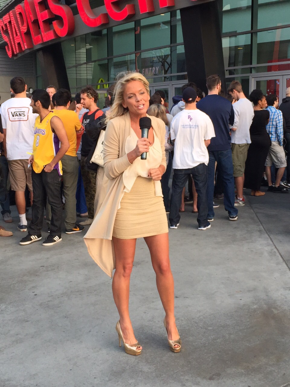 News reporting at Staples Center